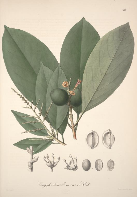 Illustration of Caryodendron orinocense (cacay) as was published in Florae Columbiae by Hermann Karsten in 858.